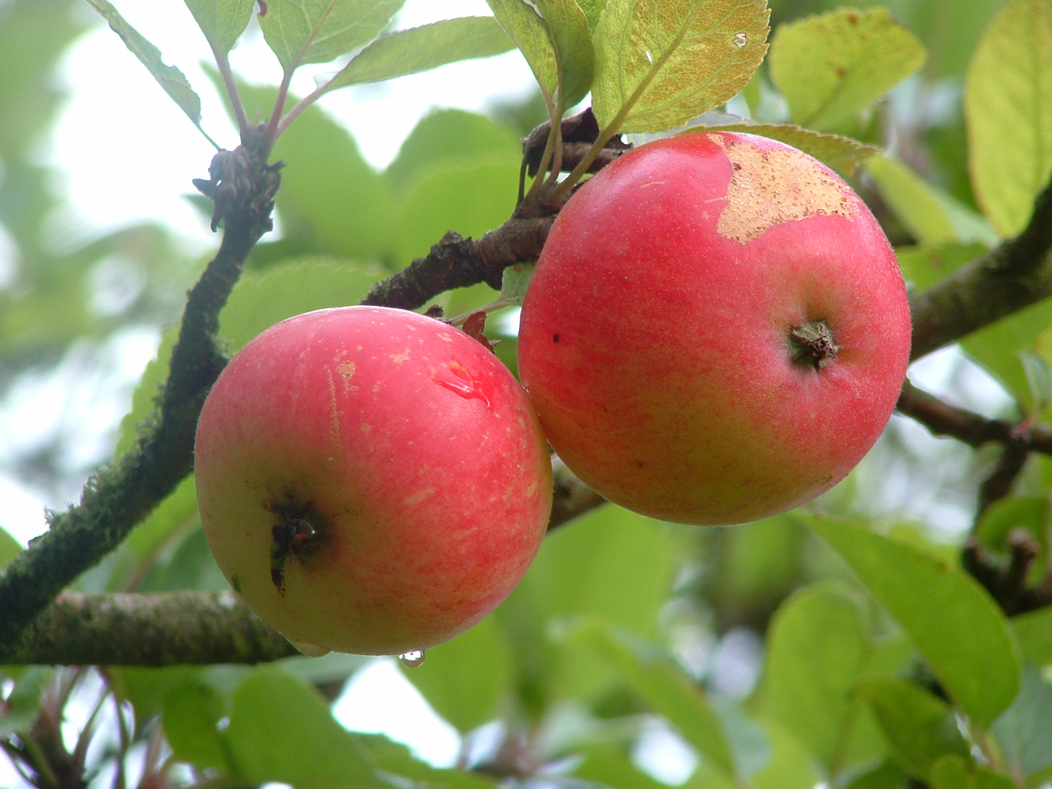 'Discovery' apples grown in Gartocharn